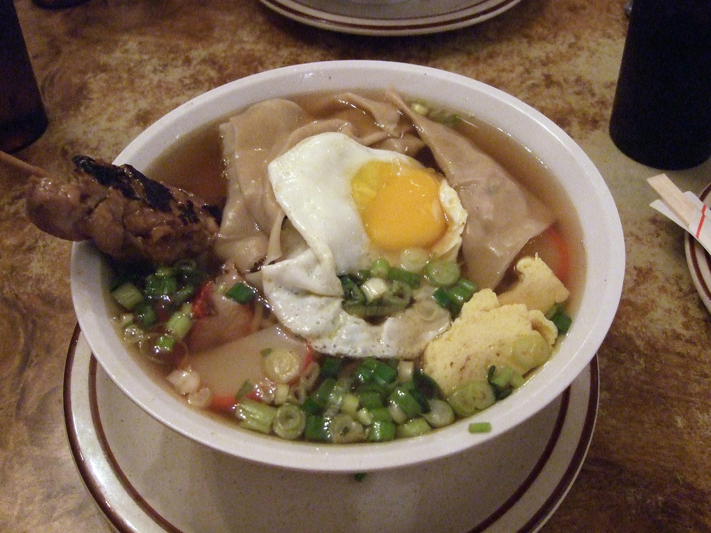 Five home made chicken won tons, bok choy, noodles made in Hilo by the Maebo family...and a teriyaki chicken stick! Ken’s House of Pancakes in Hilo, Hawaii offered a half dozen sumo sized of plates: sumo saimin noodles, sumo loco moco (6 scoops rice and your choice of spam (4), 5 oz. Lean “Home Grown” beef patty (2), or 6 oz. mahi-mahi, gravy and 3 eggs any style and a sumo burger (with two eight ounce patties).